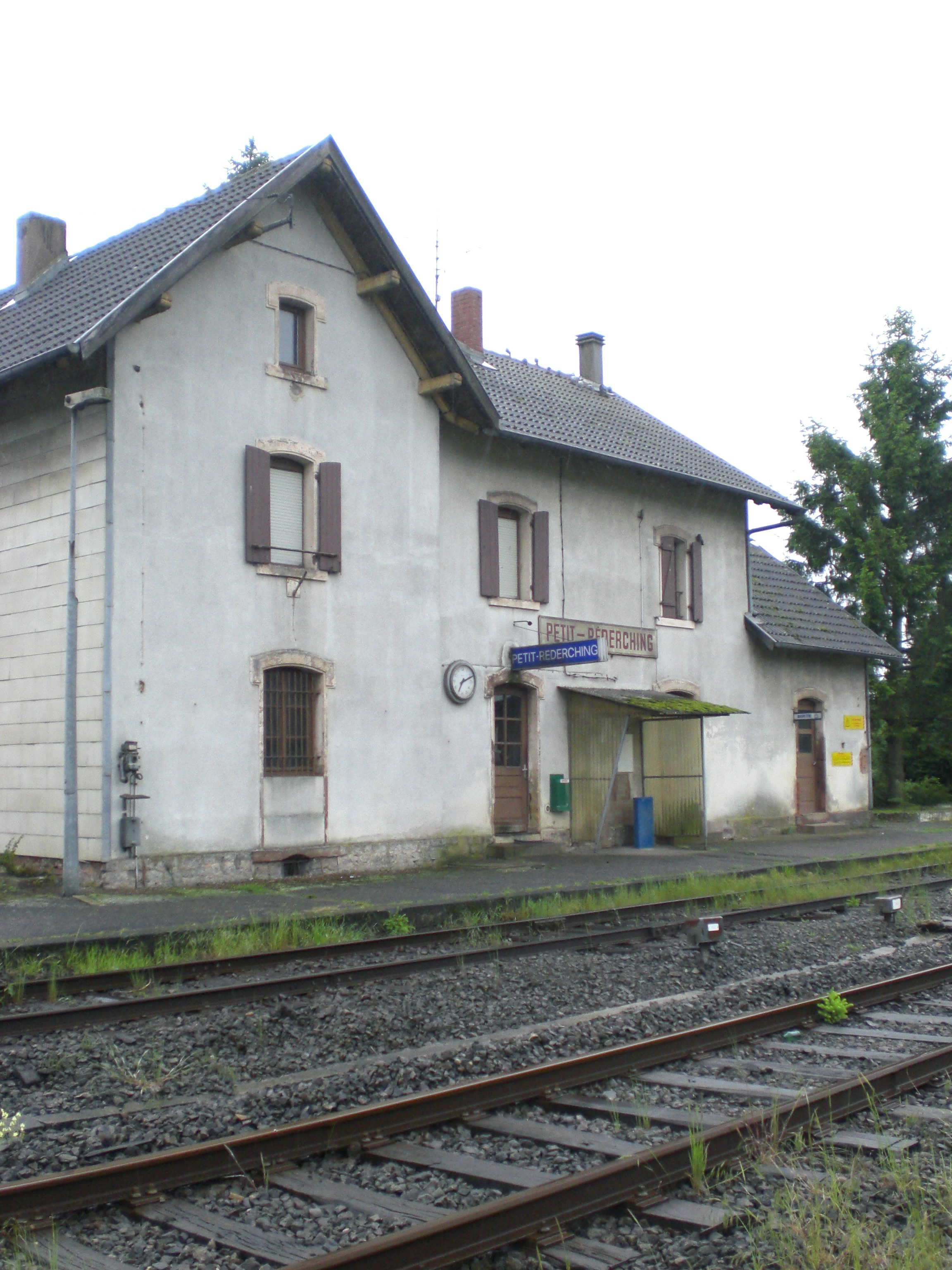 Train station Petit-Réderching, Lorraine